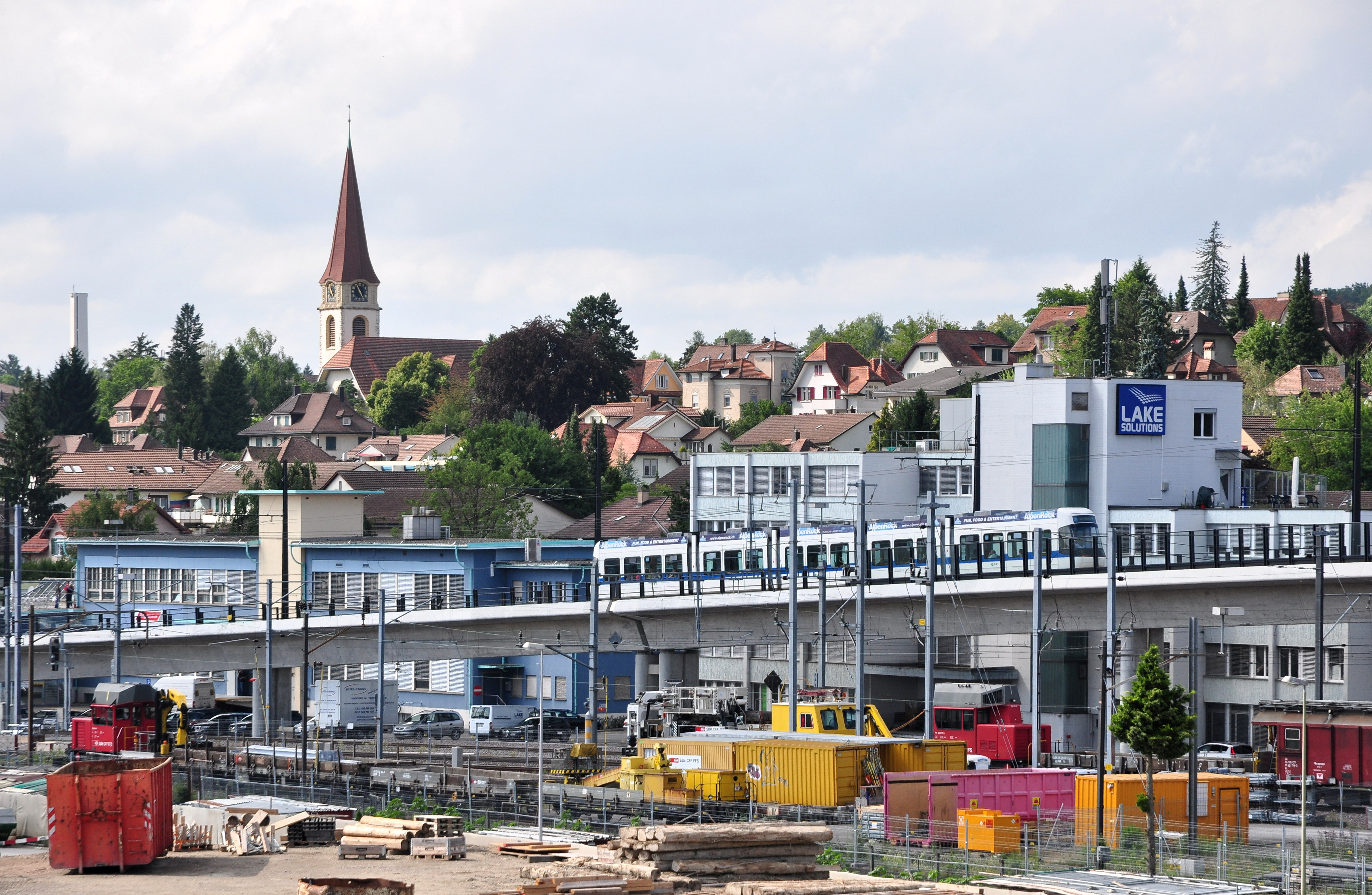 Wallisellen (Switzerland) as seen from the Glattalbahn train station Glattzentrum